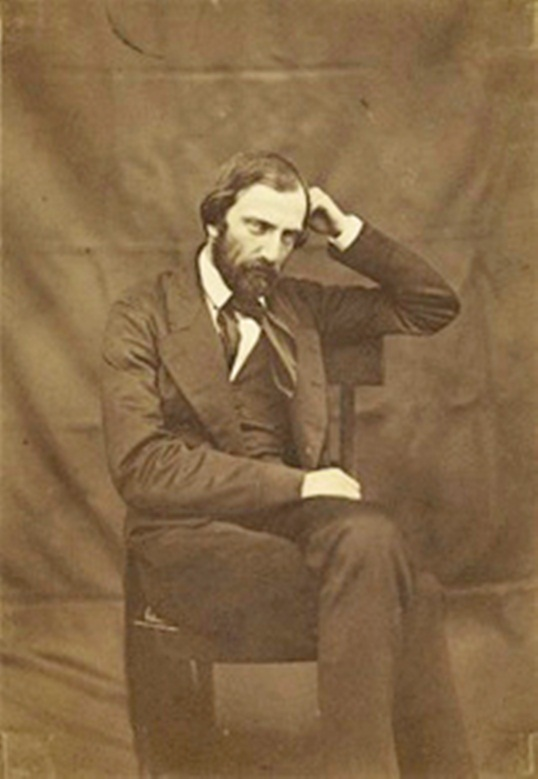 François d'Orléans, Prince of Joinville young